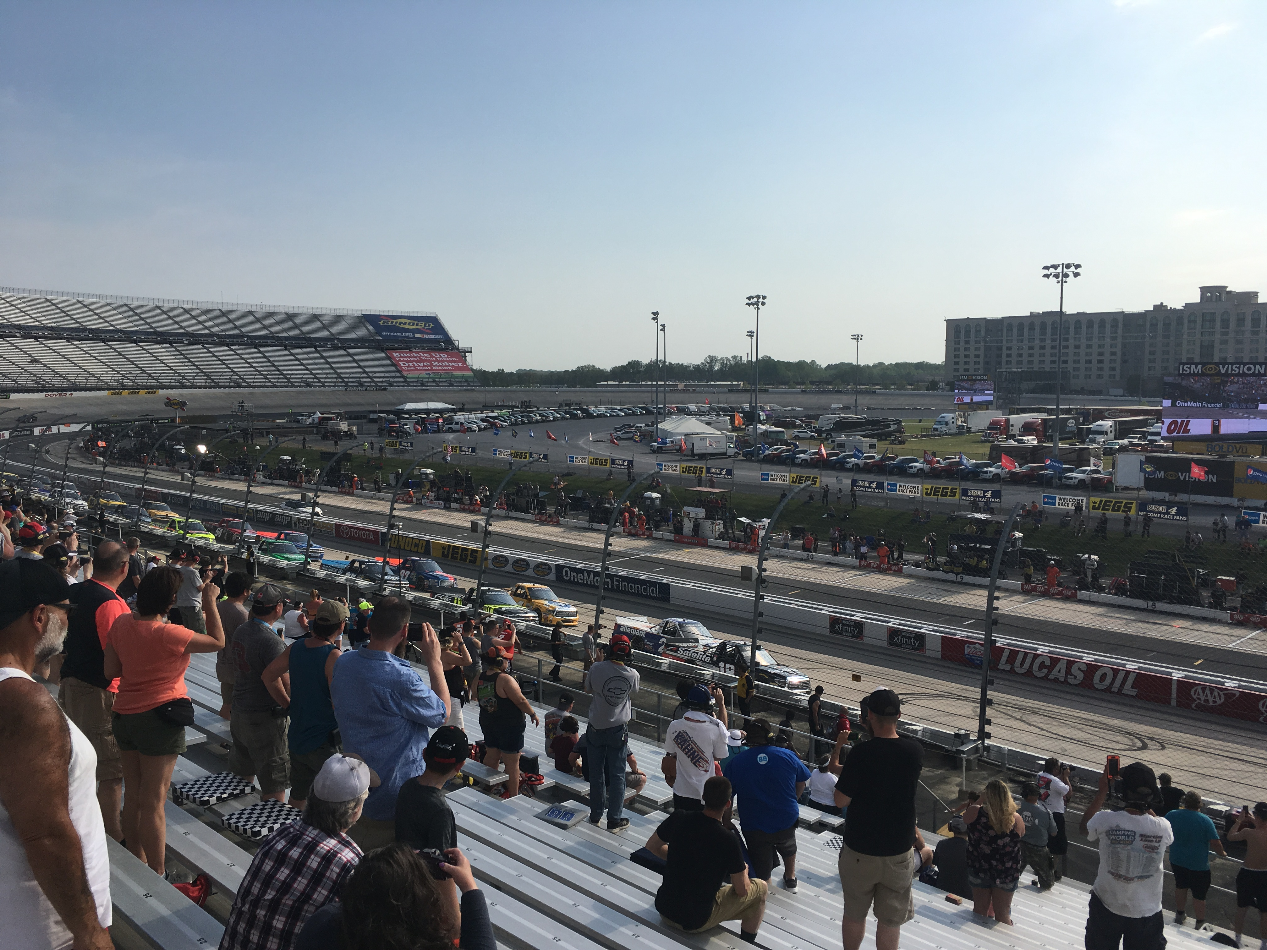 The 2018 JEGS 200 at Dover International Speedway viewed from the frontstretch, with Noah Gragson (#18) leading the field to the green flag.